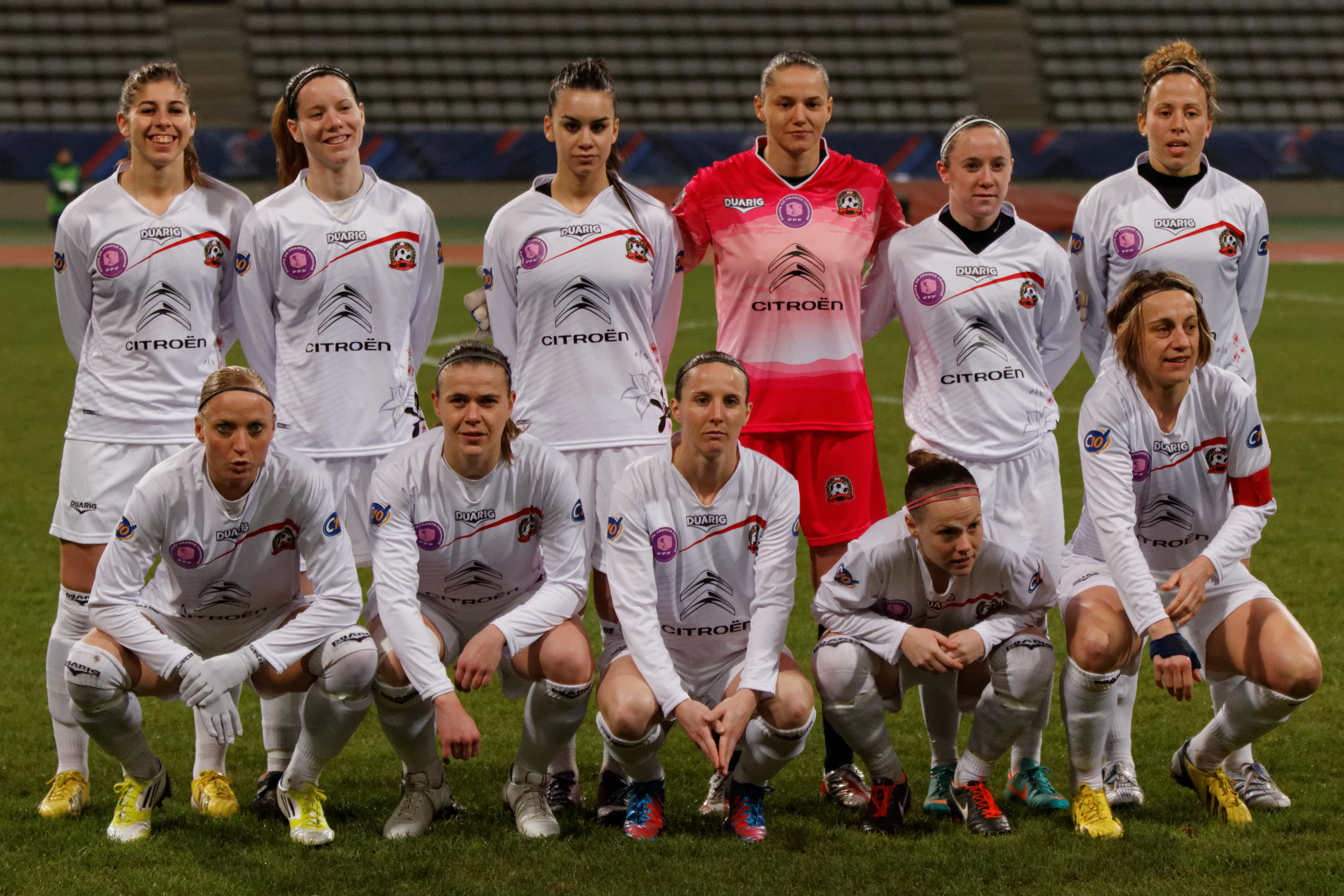 PSG-Juvisy, March 23th, 2013. up: Camille Catala, Anaïg Butel , Charlotte Fernandes, Iryna Zvarych, Julie Machart, Inès Dhaou bottom: Nelly Guilbert, Sandrine Dusang, Amélie Coquet, Gwenaëlle Butel, Sandrine Soubeyrand.